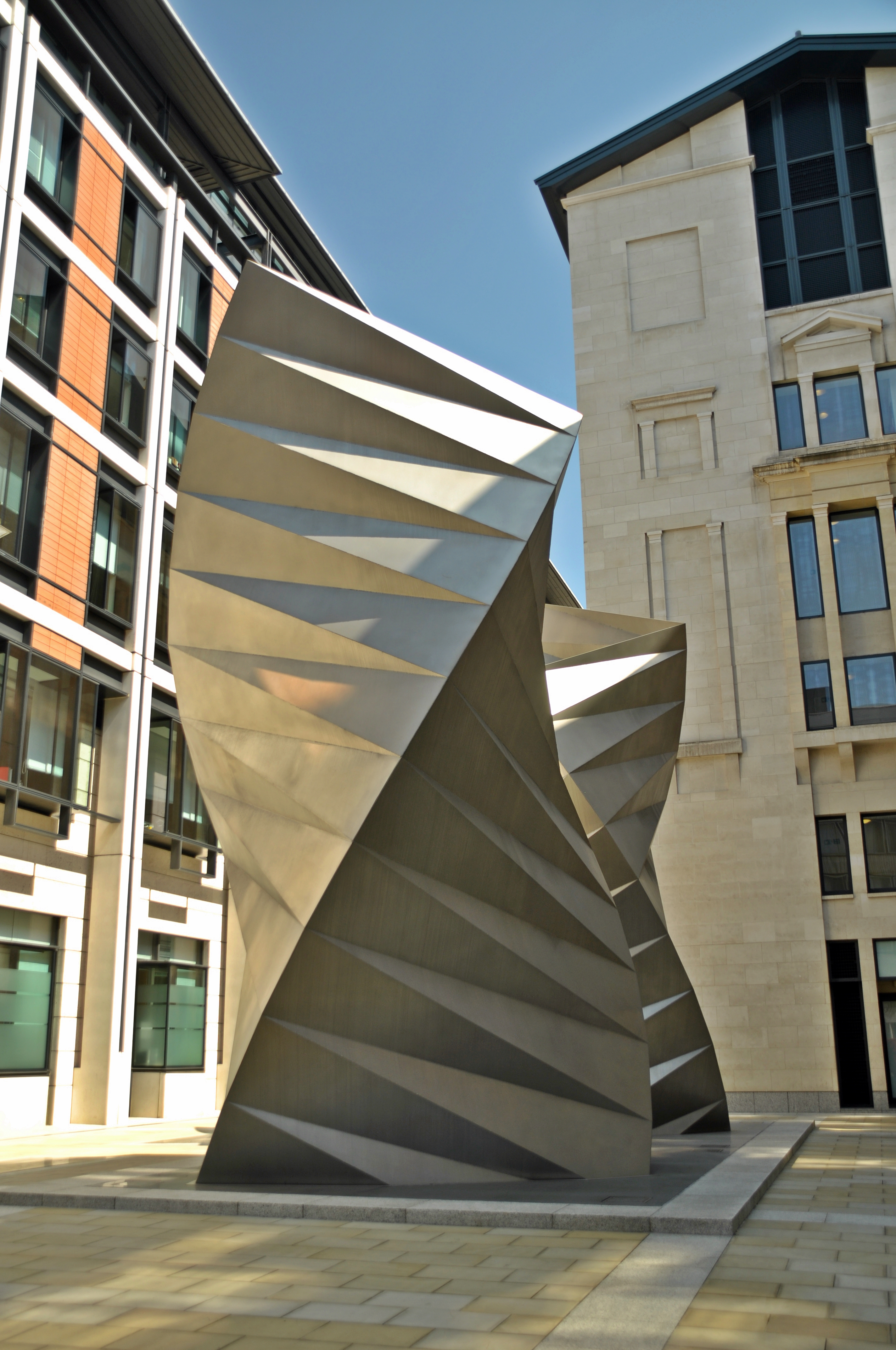 Sculpture by English designer Thomas Heatherwick, located in Bishop's Court, off Paternoster Square.